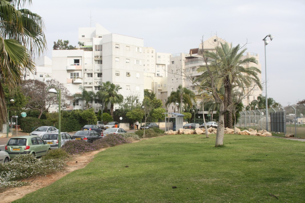 Morasha, Ramat Hasharon